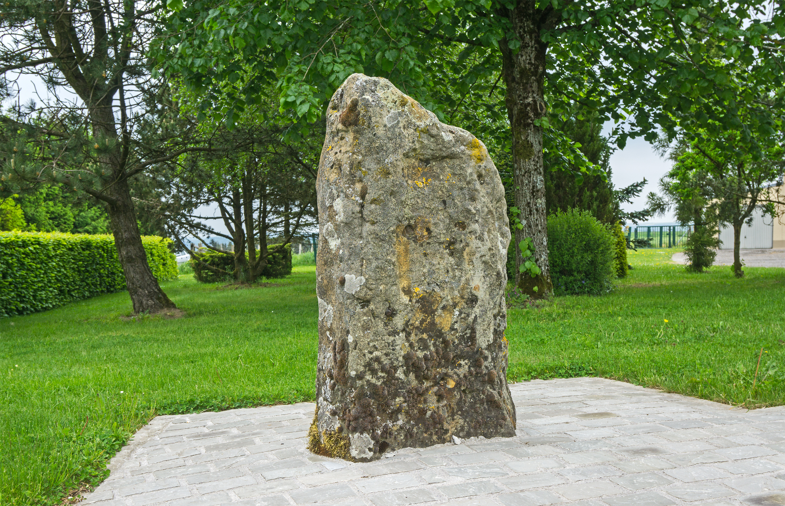 The stone that has given the name to the place